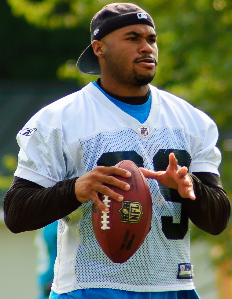 Carolina Panthers Training Camp on August 11, 2010 at Wofford College in Spartanburg, SC.